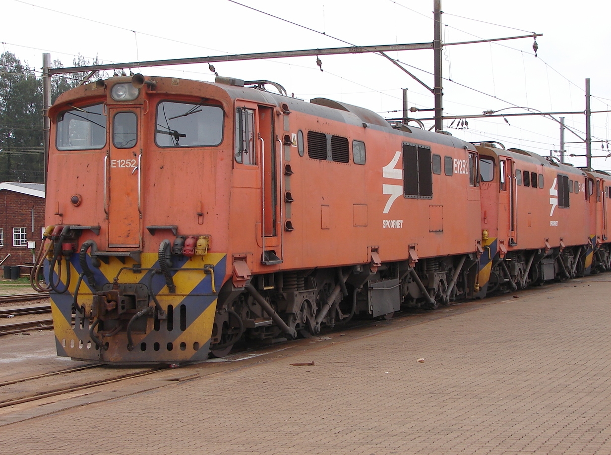 SAR Class 6E1 Series 2 E1252Location: Sentrarand, Gauteng